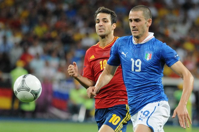 Leonardo Bonucci and Cesc Fàbregas at Euro 2012 final Spain-Italy